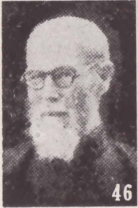 Sir Robert Hotung (He Dong; Ho Tung) (1863 - 1956)